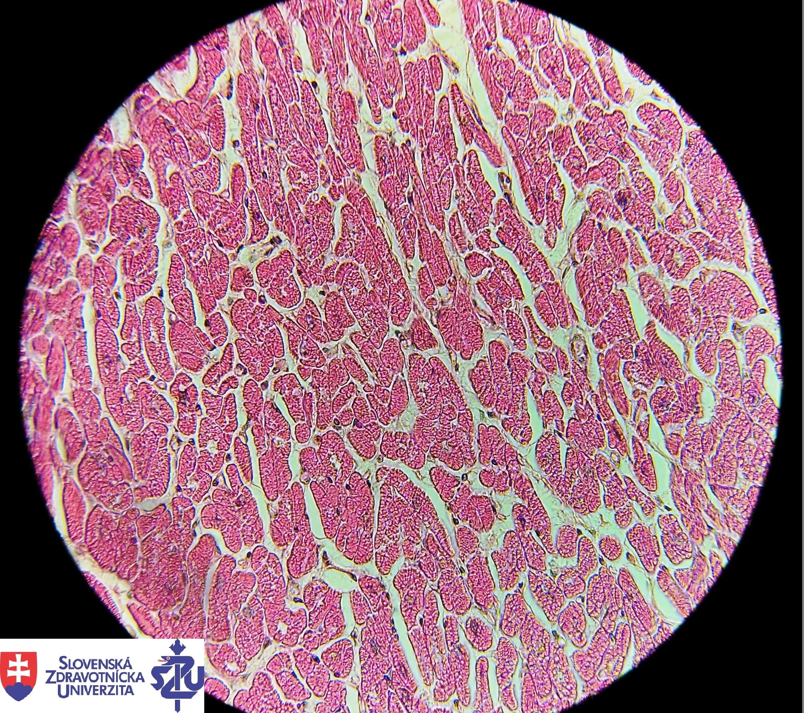 Cardiac muscle - myocardium (HE)